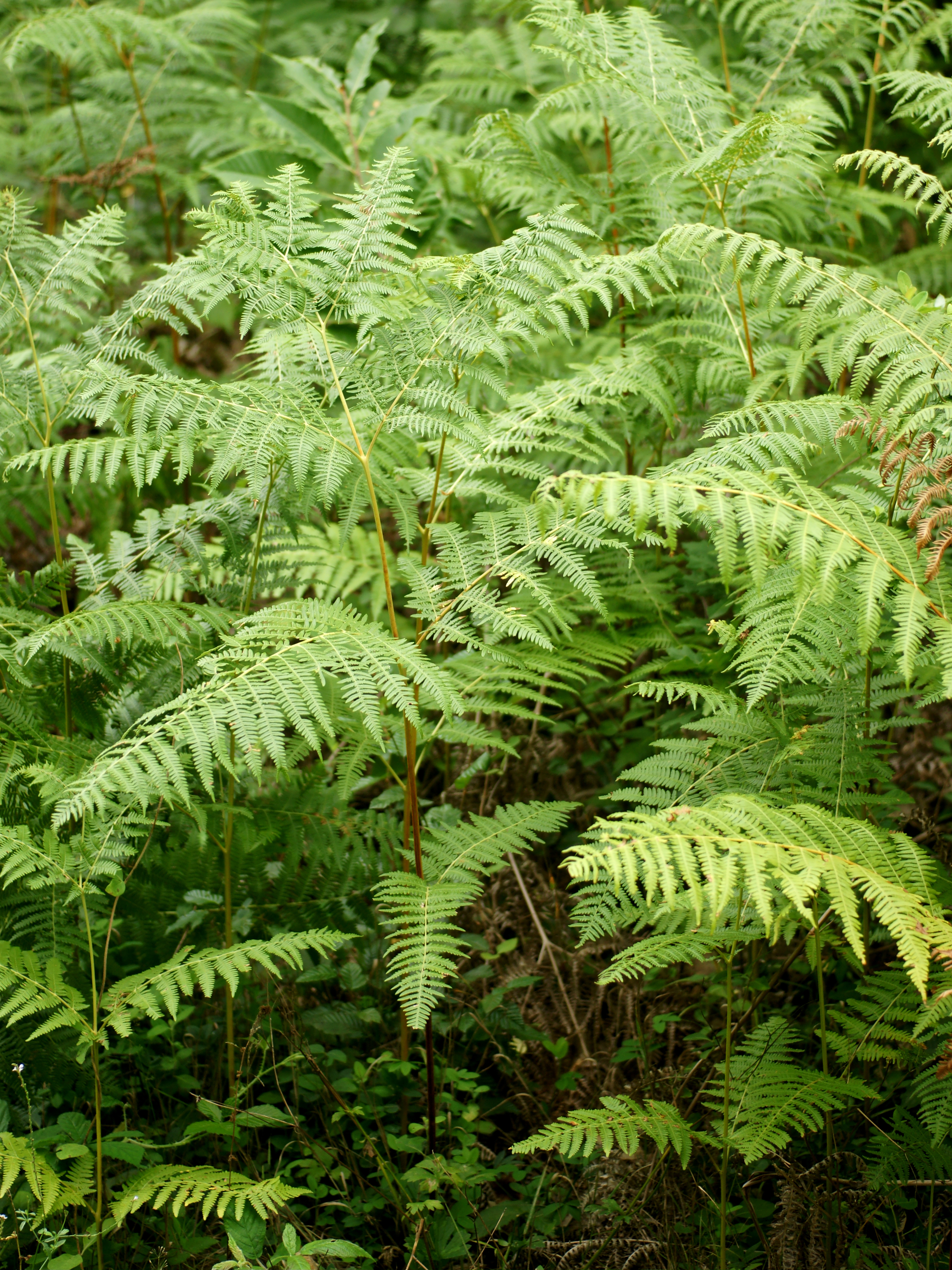 Common bracken near Bioussac, Charente, France.